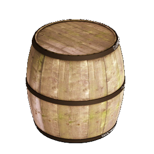 Based on File:Barrel Icon.jpg